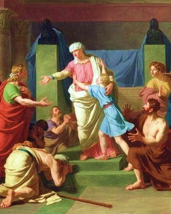 Joseph recognized by his brothers